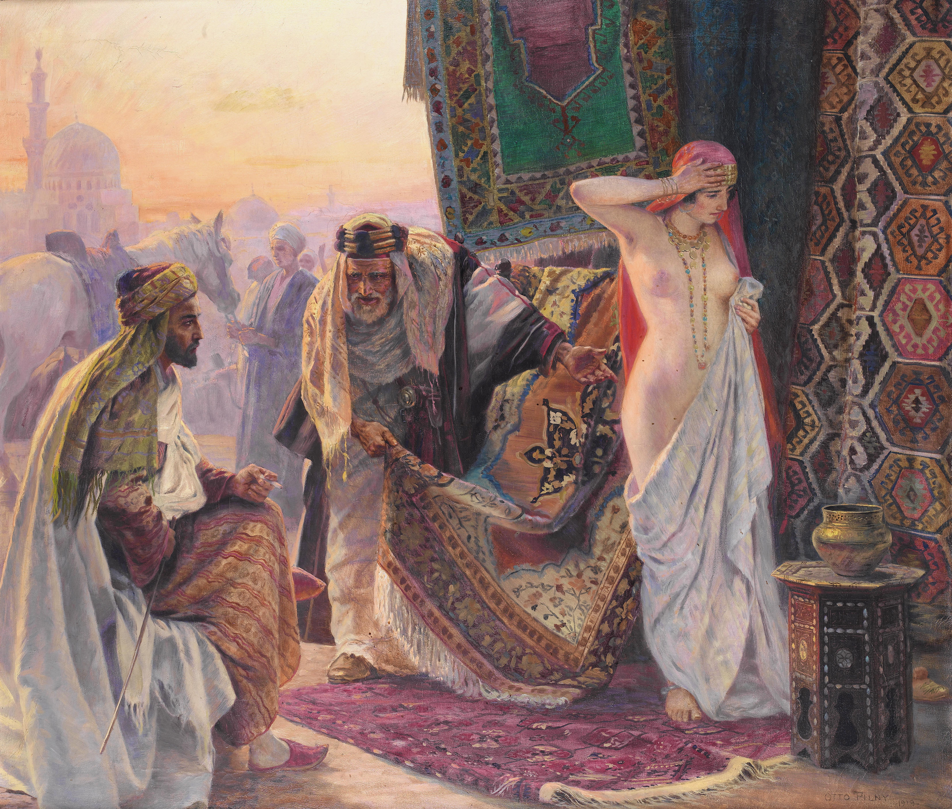 Sklavenhändler. Signed and dated 'OTTO PILNY 1919' (lower right). oil on canvas. 75.5 x 110.5 cm